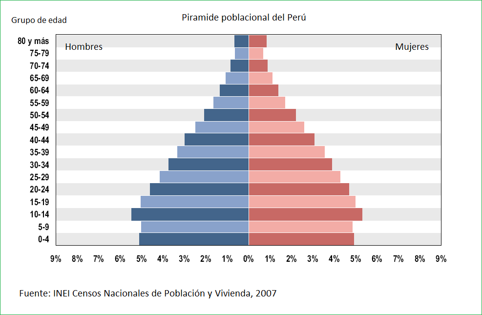 Population pyramid for Peru (2007)